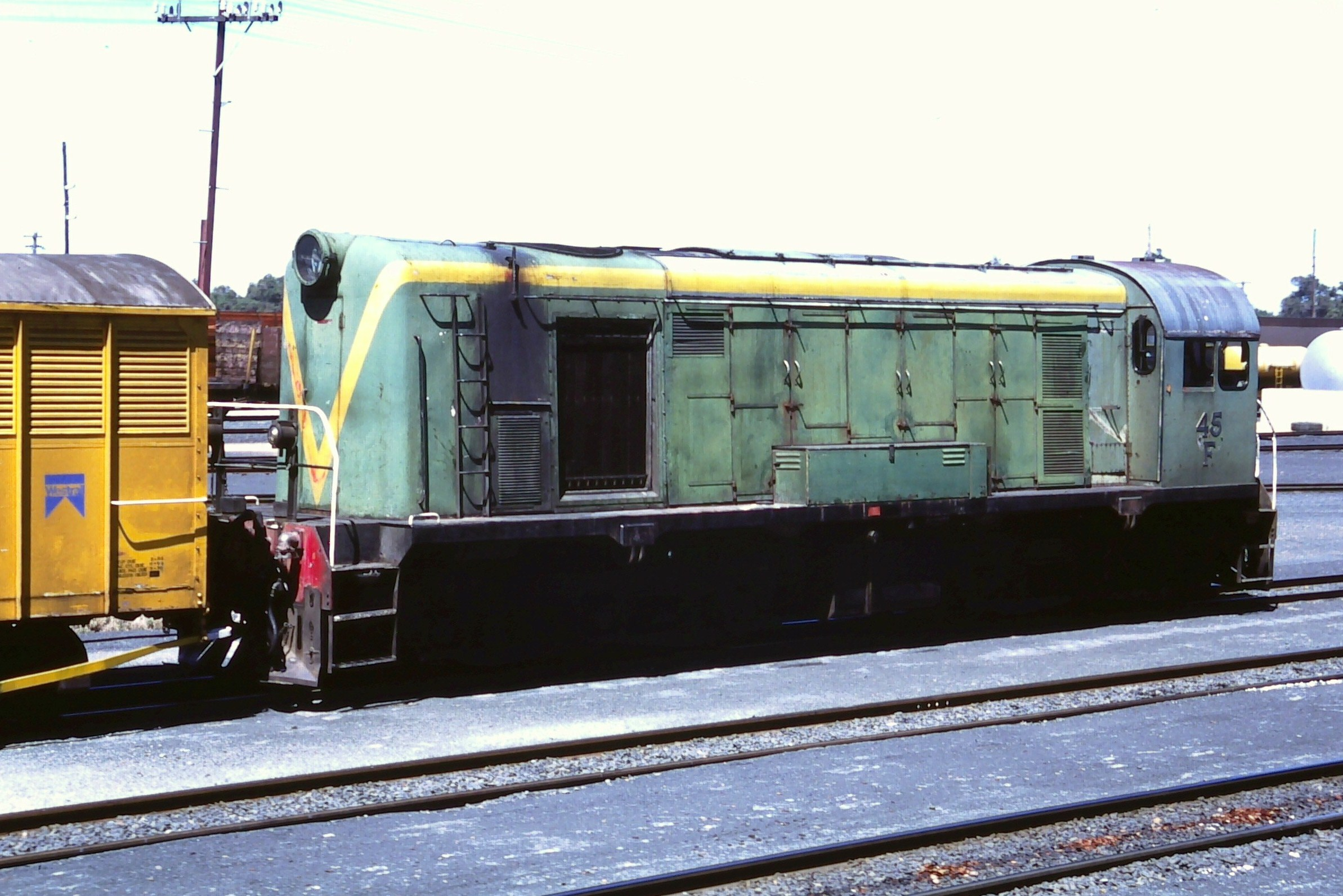 Ex-Midland Railway of Western Australia F class locomotive no F45, still in (very faded) WAGR Brunswick green and red livery, at Picton Yard, near Bunbury, Western Australia.Kodachrome slide converted by Kaiser Baas Photo Maker Pro into a digital image.